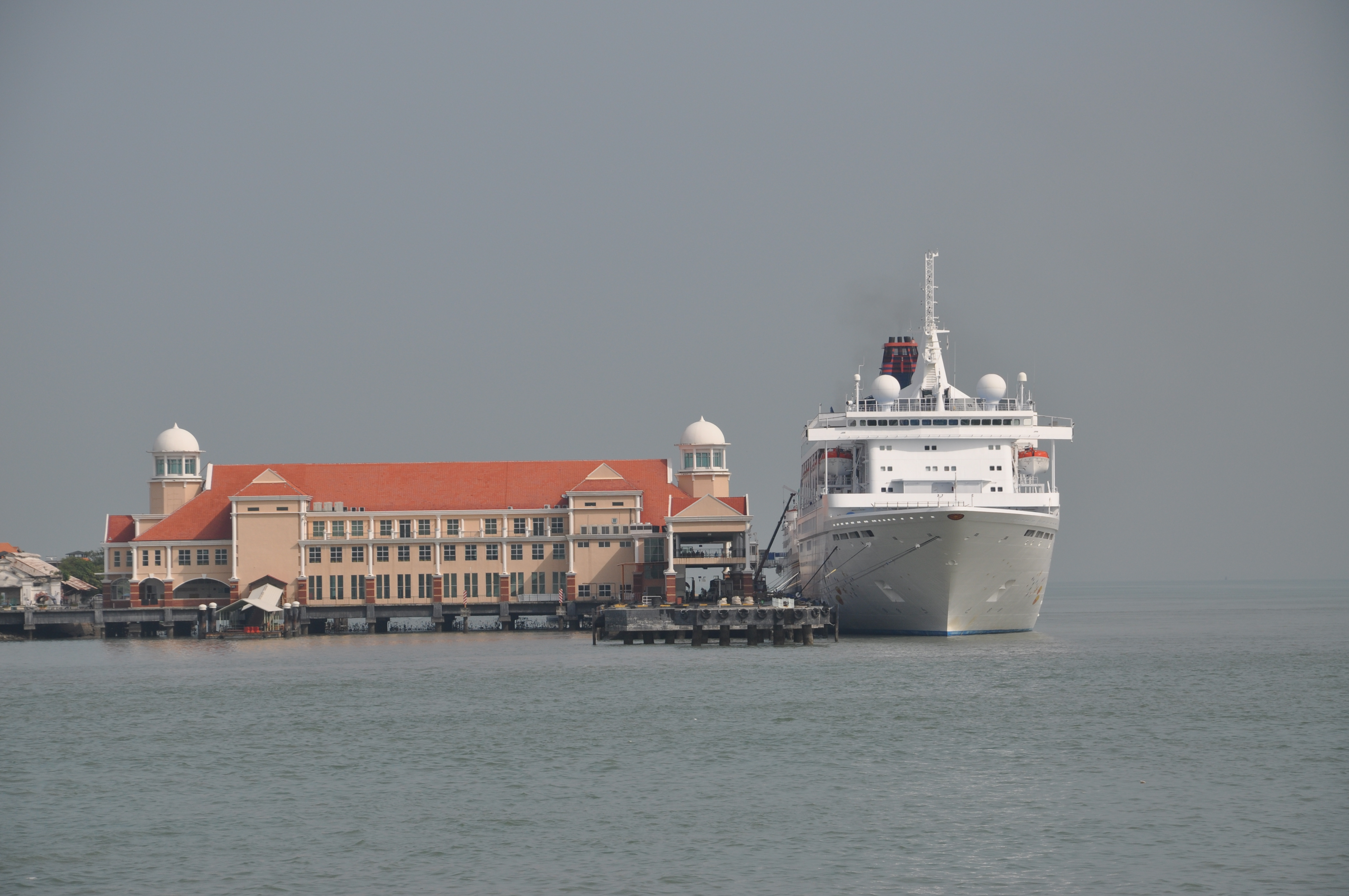 Luxury cruise liner at the terminal A look at the massive cruise liner and the Penang Cruise Terminal as we cast off and take a turn. This is a head on, though distant, view of the cruise ship. And while the passengers on the ship (those who are looking this side anyway) might have been fascinated by our large roll on roll off ferry boat, me on the ferry was downright awestruck with the gargantuan and glamourous ocean liner. (Georgetown, Penang, Malaysia, Nov. 2013)